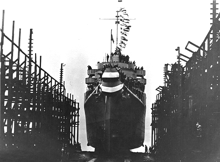 The U.S. Navy small seaplne tender USS Gardiners Bay (AVP-39) sliding down the building ways, during her launching at the Lake Washington Shipyards, Houghton, Washington (USA), on 2 December 1944.